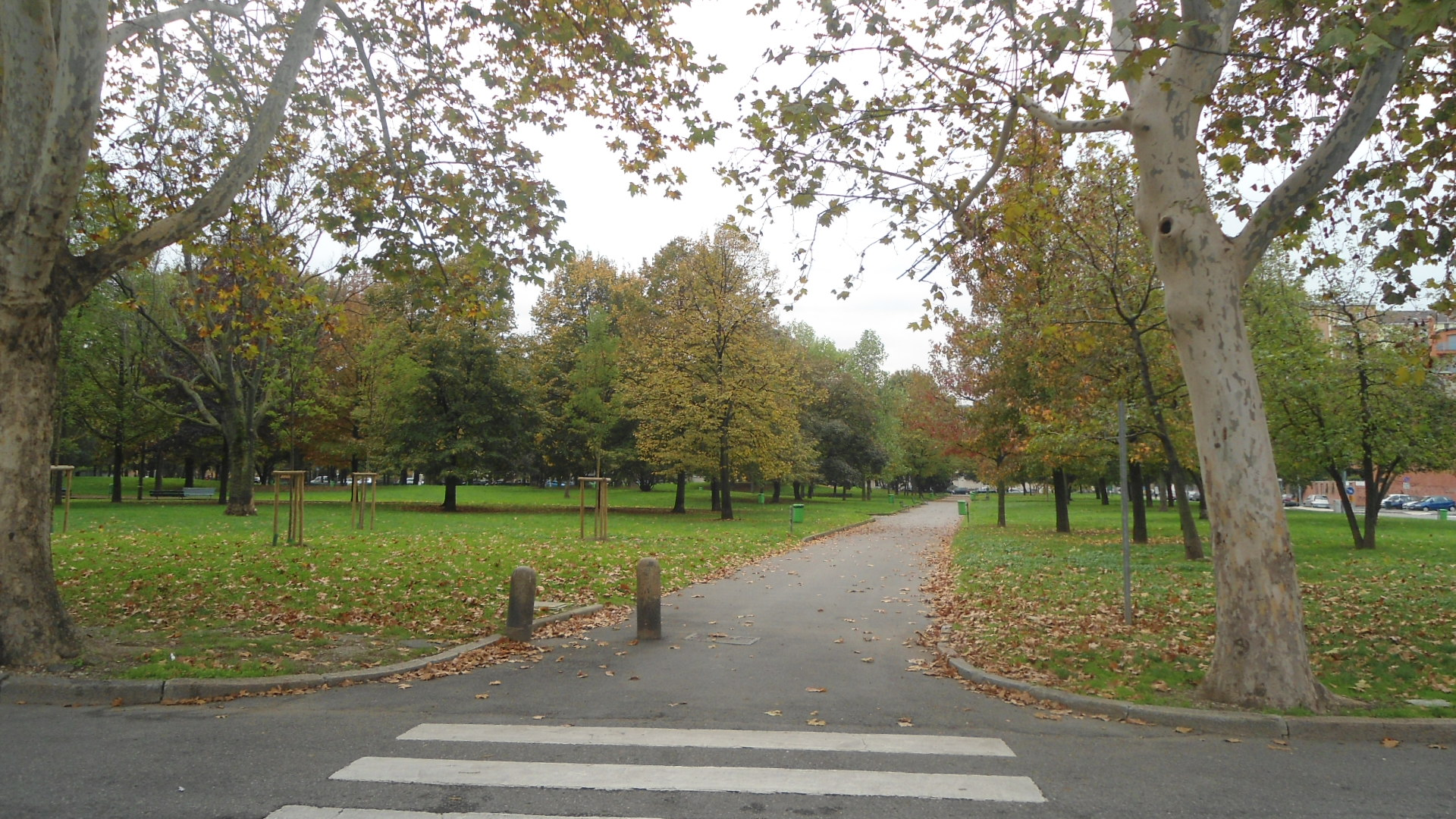 Parco Giovanni Testori alleyway from Viale dei Pioppi